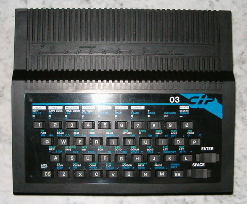 Romanian Electronica CIP-03 microcomputer, version blue.